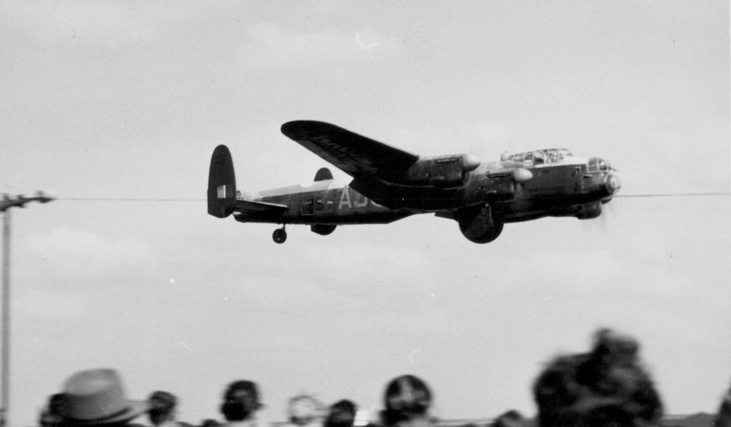 Avro Lancaster modified to represent those used in the "Dam Busters" film displaying at Coventry airport